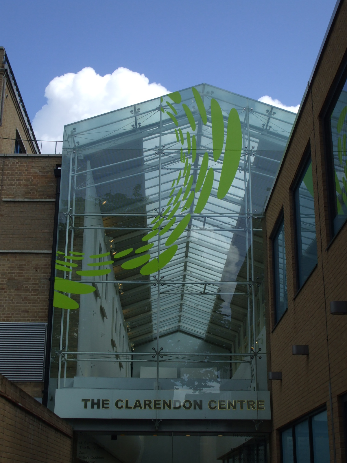 Clarendon Shopping Centre, Oxford, England.